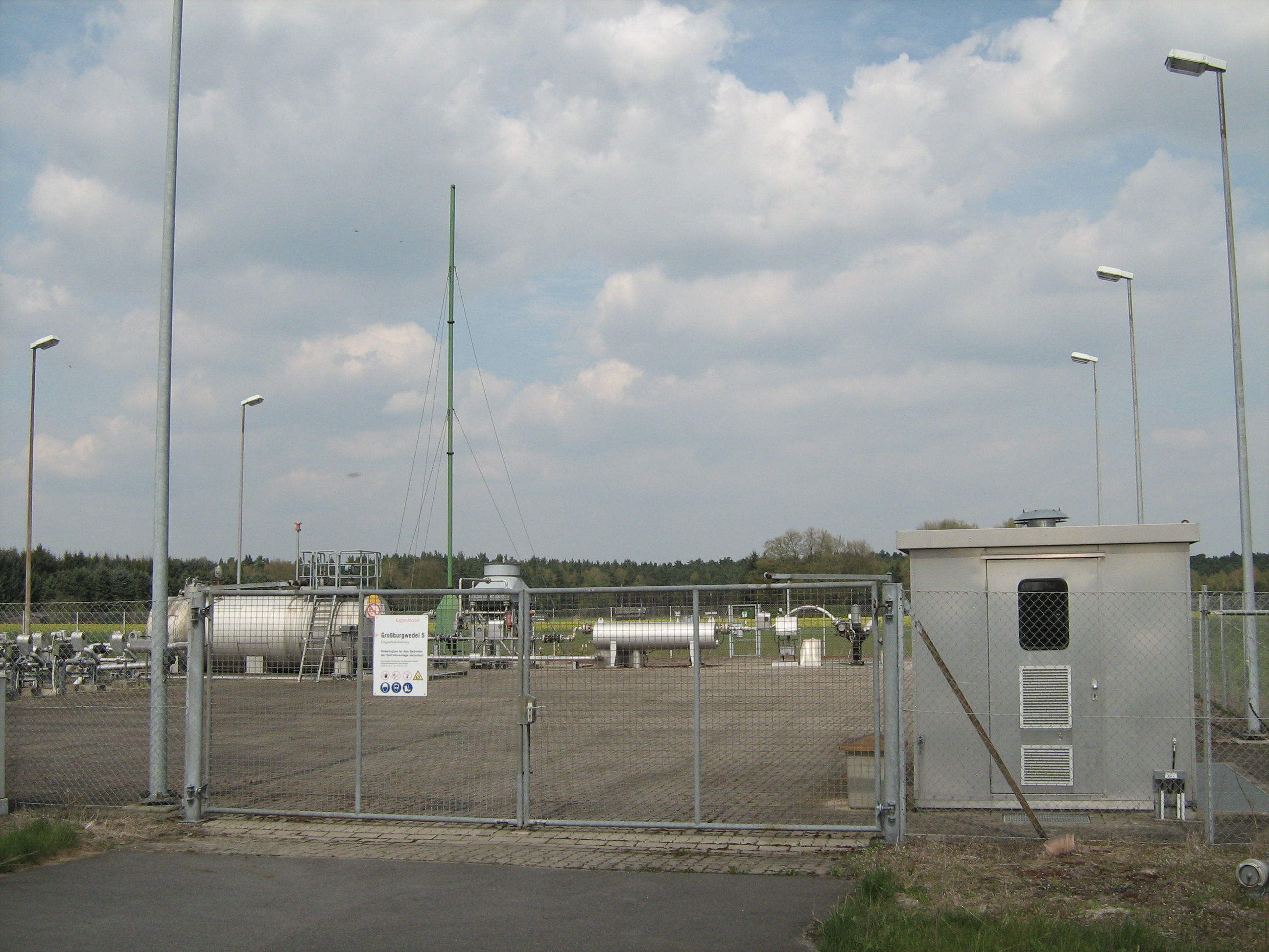 Natural gas production well NE of Hannover, Lower Saxony, Germany